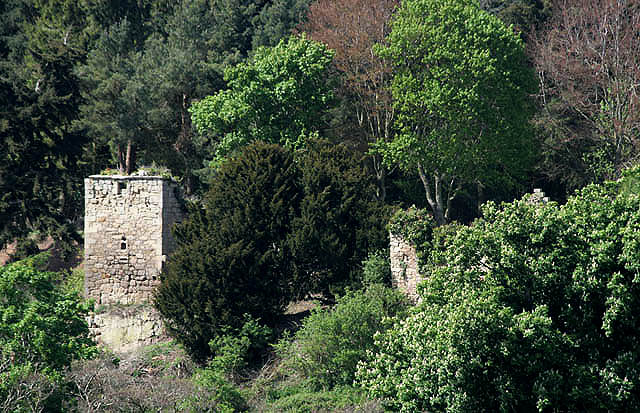 The remains of Blanerne Castle near Edrom Set in Crow Wood a short distance to the southwest of Blanerne House and the original seat of the Lumsdaine family. The 16th century castle is a scheduled monument. Viewed from a minor road near Todheugh Farm.